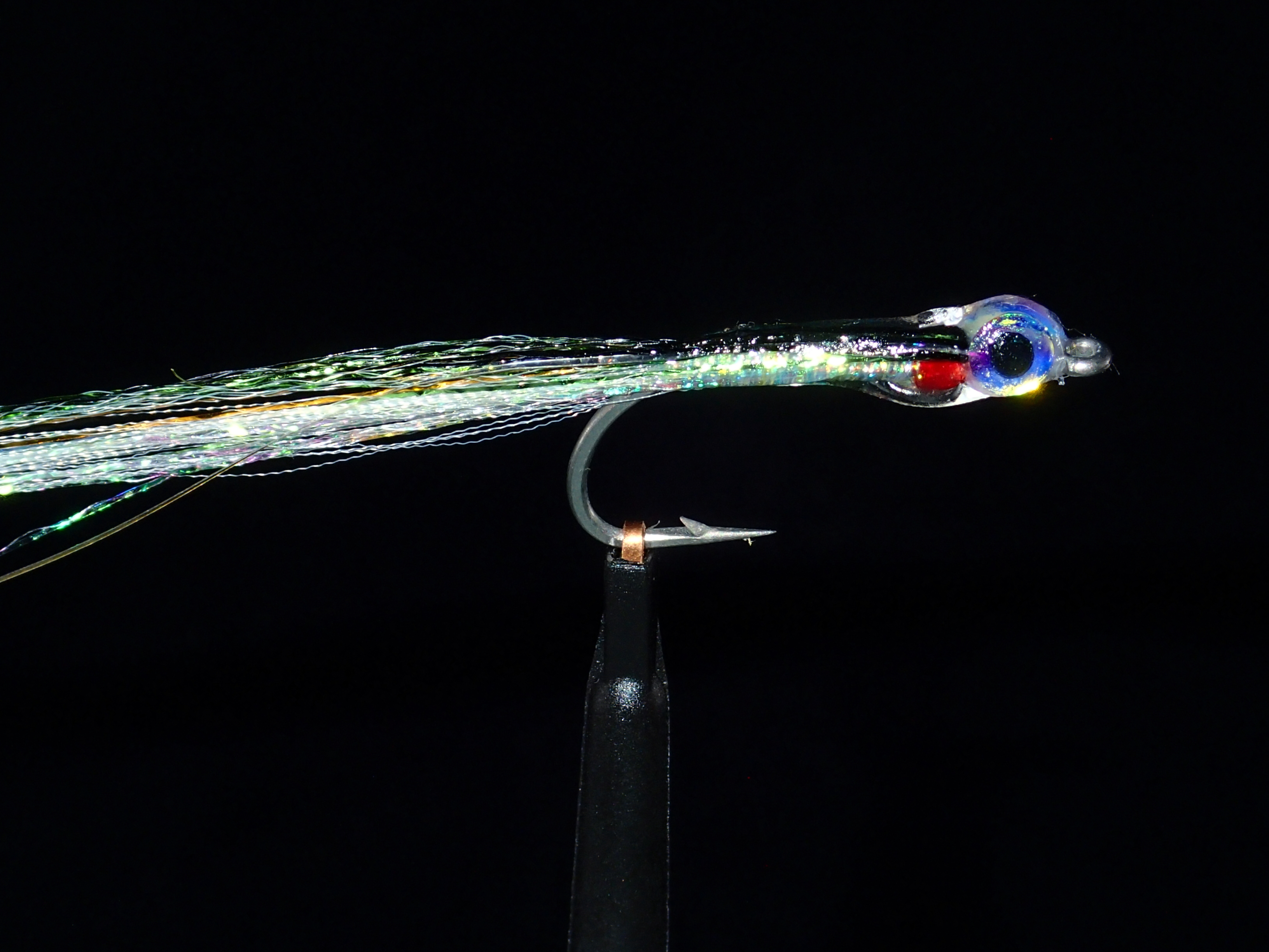 Variations of Bob Popovics' Surf Candy saltwater baitfish pattern